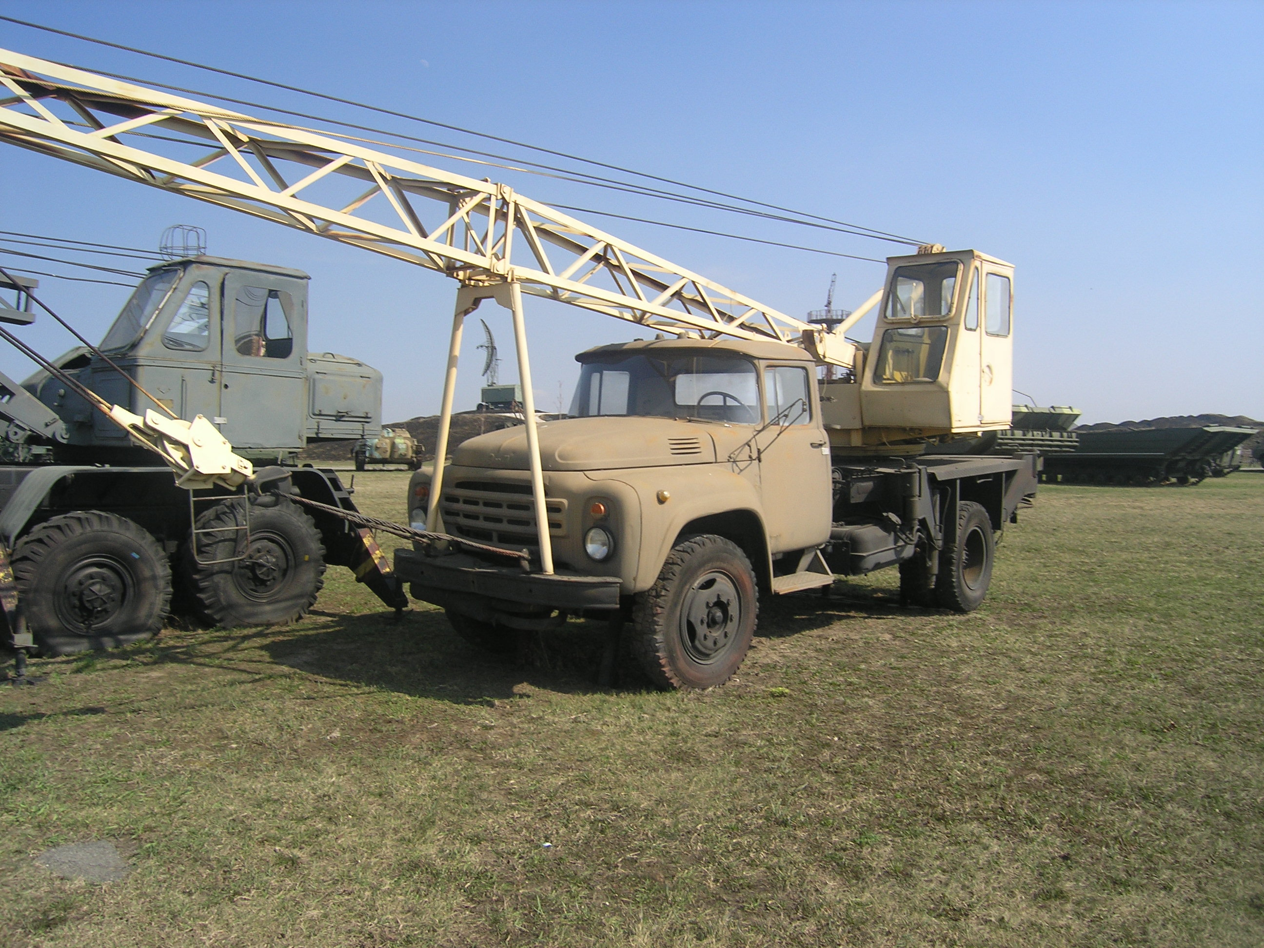 Crane truck KS-2561K on Zil-130 base